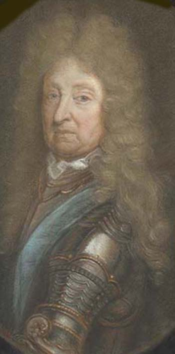 Depicted person: Frederick Schomberg